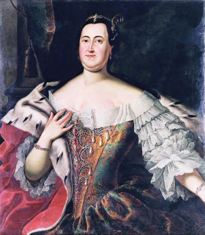 Catherine Sapieha